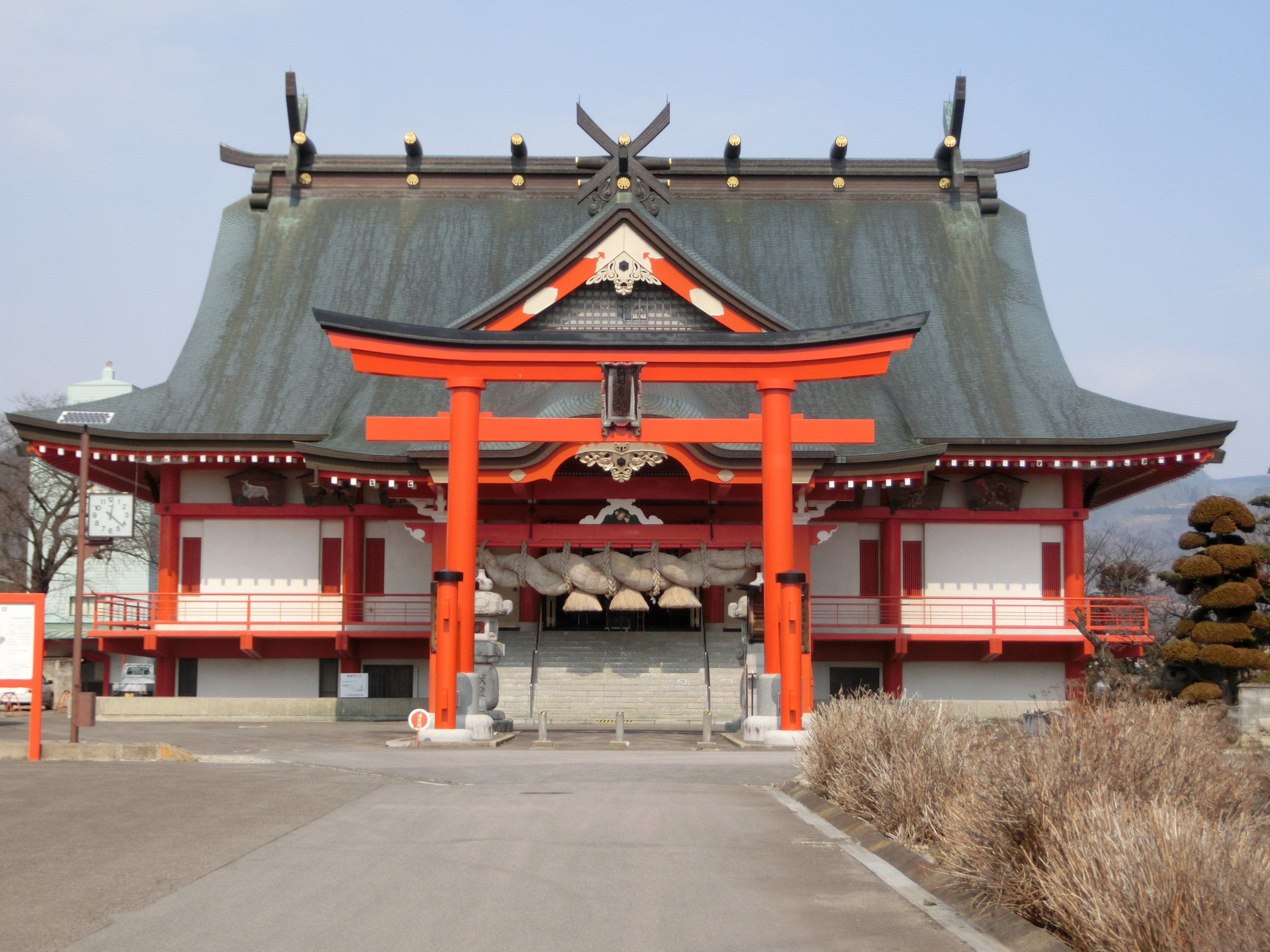 Nihon Keijin-Suso Jishudan Headquarters